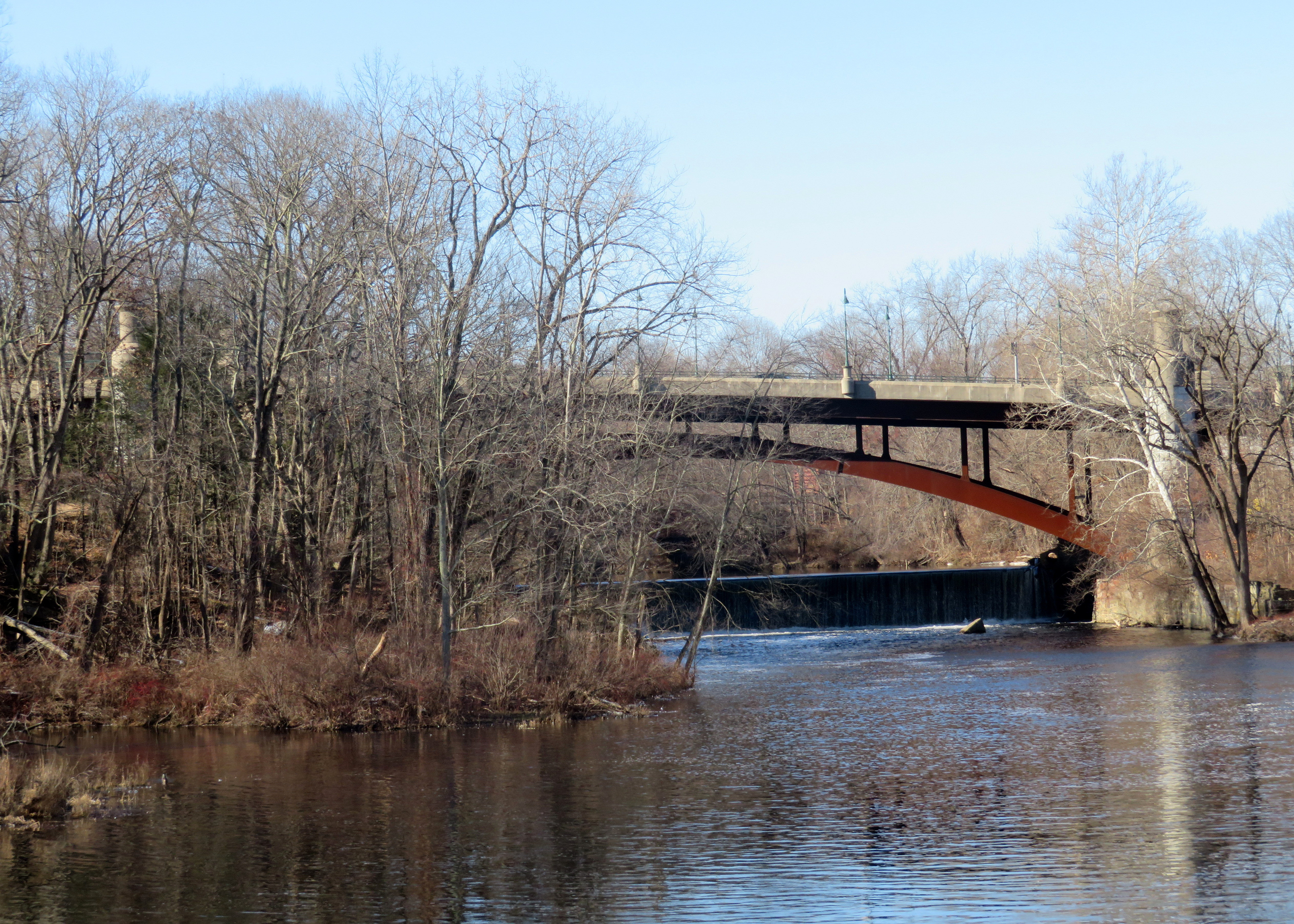 The Frog Bridge viewed from its predecessor in December 2018